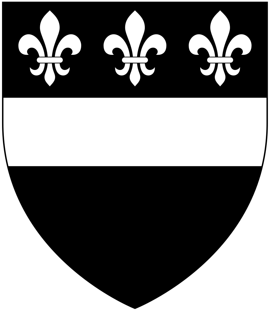 Arms of Kellond of Painsford in the parish of Ashprington, Devon, England: Sable, a fess argent in chief three fleurs-de-lys of the last (Vivian, Lt.Col. J.L., (Ed.) The Visitations of the County of Devon: Comprising the Heralds' Visitations of 1531, 1564 & 1620, Exeter, 1895, p.508)